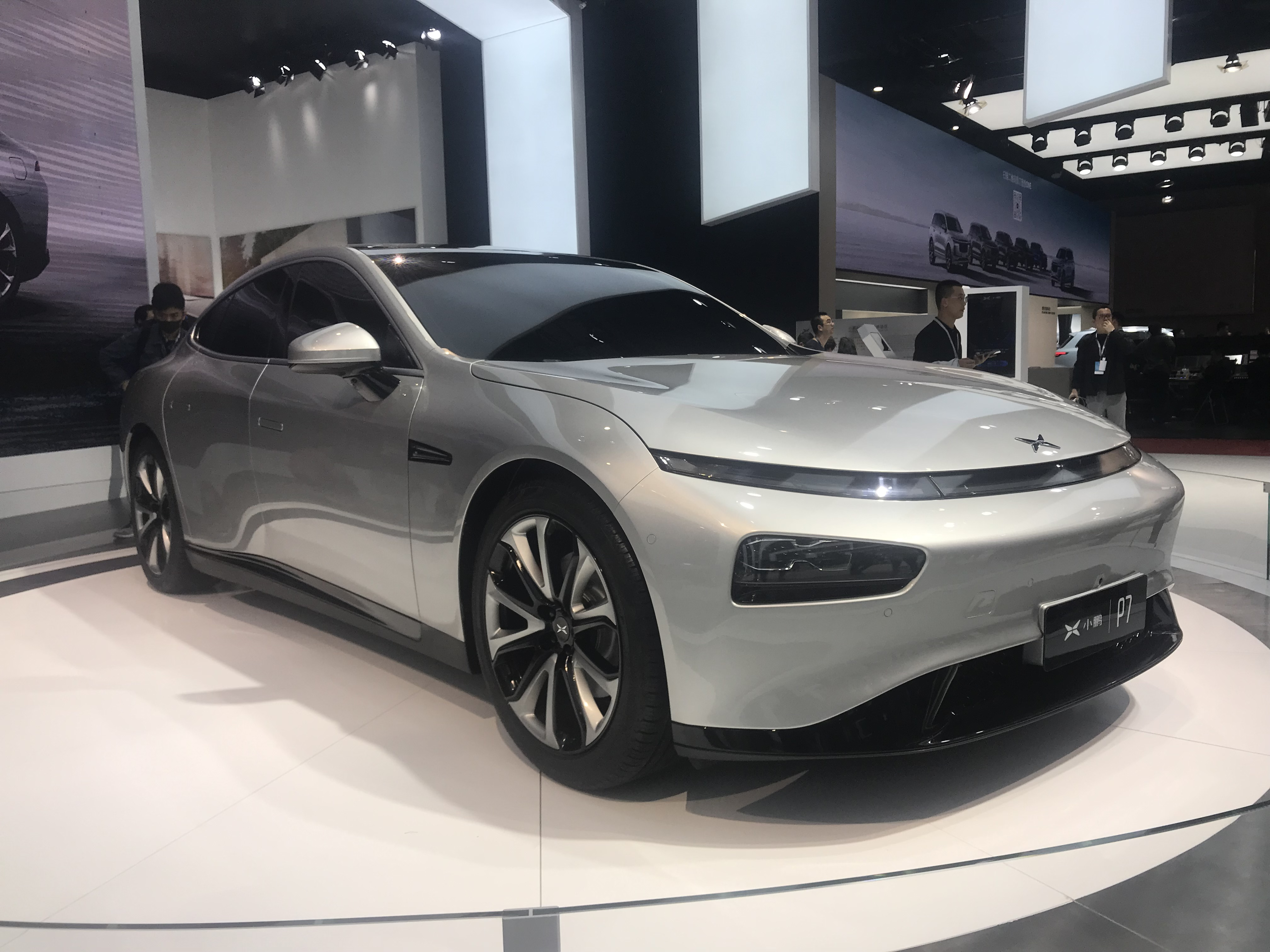 Xpeng (Xiaopeng) P7 front